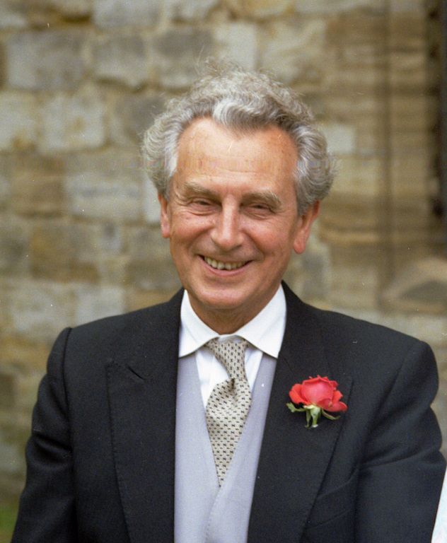 Portrait of my father taken at my brother's wedding. Attribution: Photo by Tadeusz Patryk Szczepanik 1986